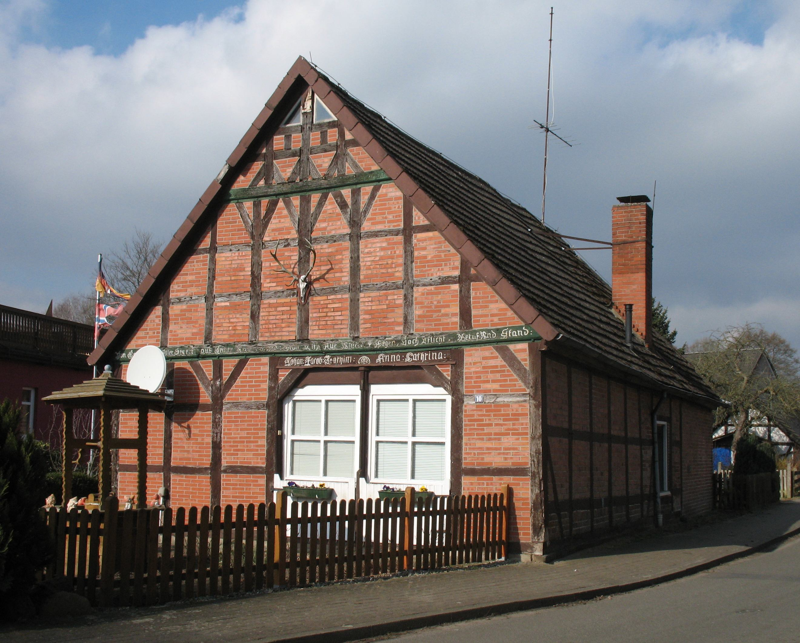 Building in Jameln-Breselenz in Lower Saxony, Germany